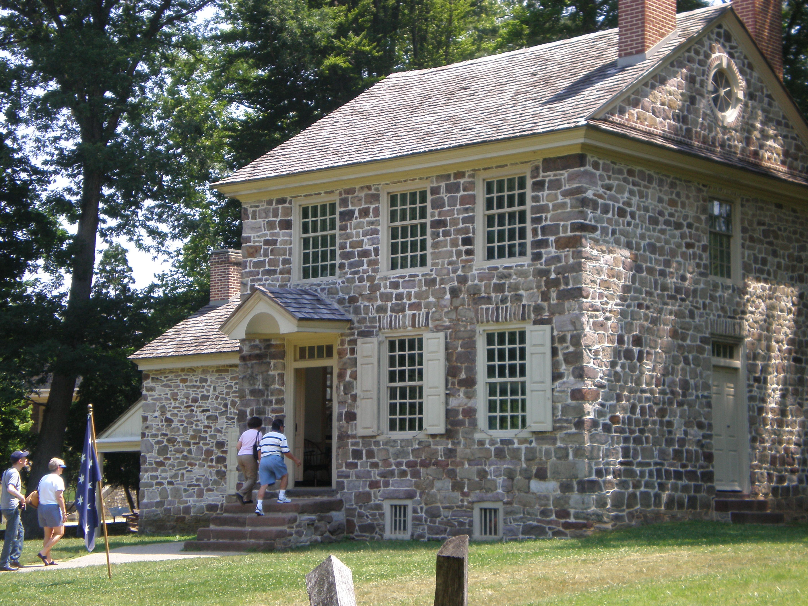 The restored headquarters of George Washington at Valley Forge, Pennsylvania (USA), open to visitors. Also shows "Washington's Flag."